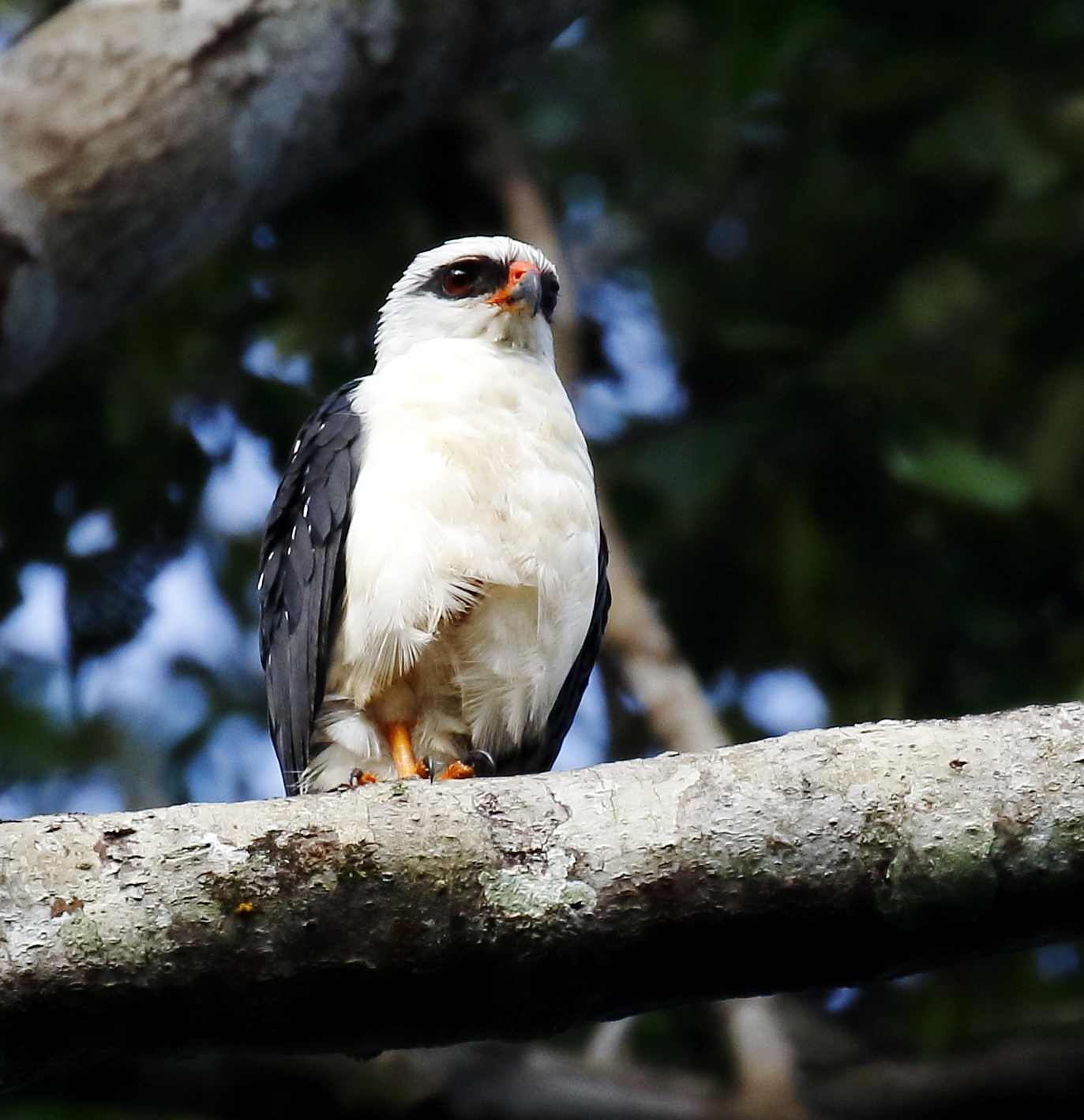 Black-faced hawk at Presidente Figueiredo, Amazonas, Brazil